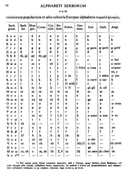 Serbian Cyrillic and Serbian Latin Alphabet cca. XIX c. with Comparative orthography of European languages. Source: Vuk Stefanovic Karadzic's "Srpske narodne pjesme" (Serbian folk poems), vol. 1, Vienna, 1841.